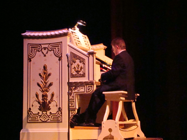 A photograph of the Wurlitzer pipe organ, at the Phipps Center for the Arts, in Hudson, Wisconsin, USA.